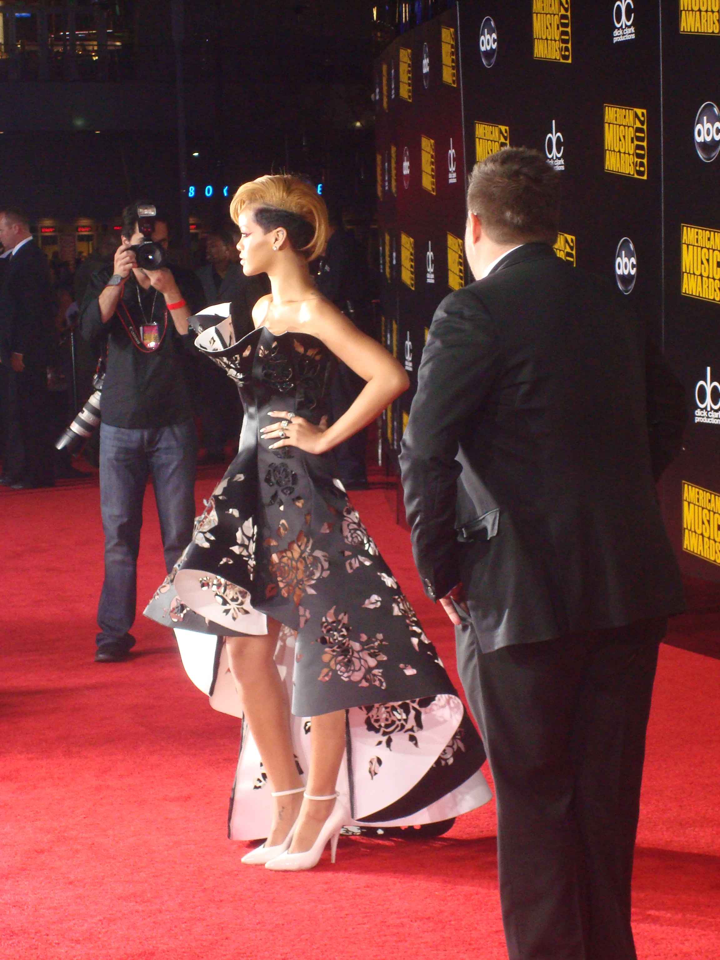 Rihanna at the 2009 American Music Award Red Carpet